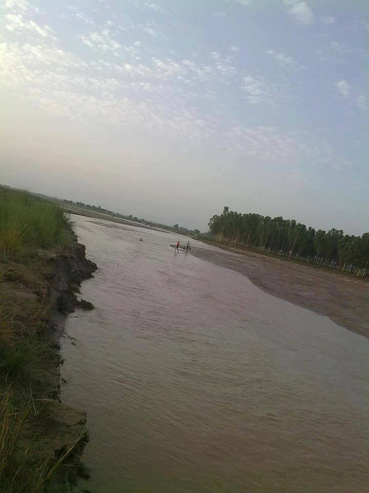 Image of "Nala Bhandar" (Bhandar River) near Roulia village, Kharian tehsil, Punjab, Pakistan